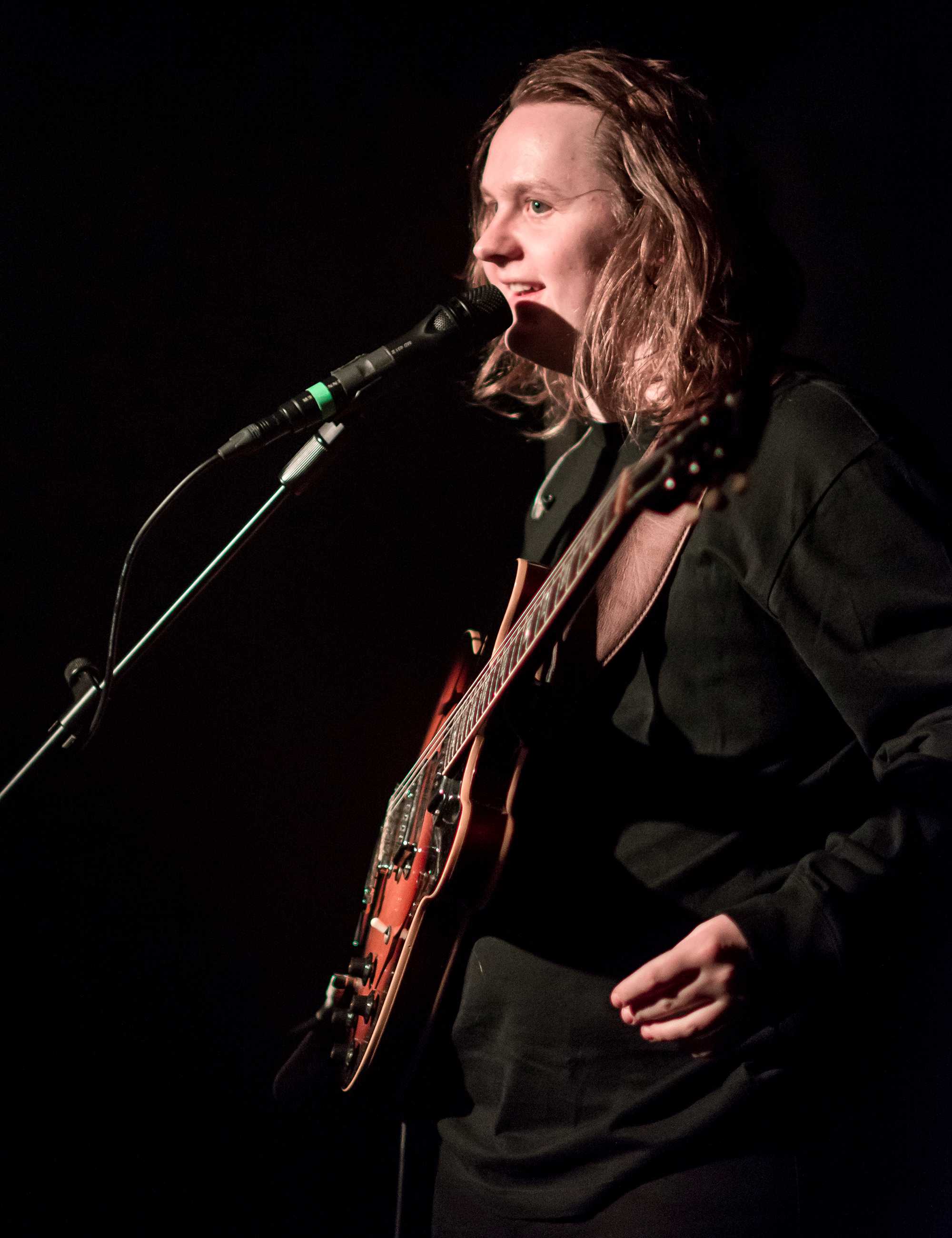 Lewis Capaldi performing live at the Moroccan Lounge in Los Angeles, California, on Friday, January 5, 2018.